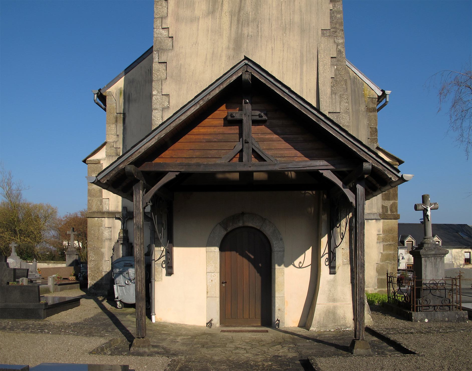 Church of Oberpallen, Luxembourg